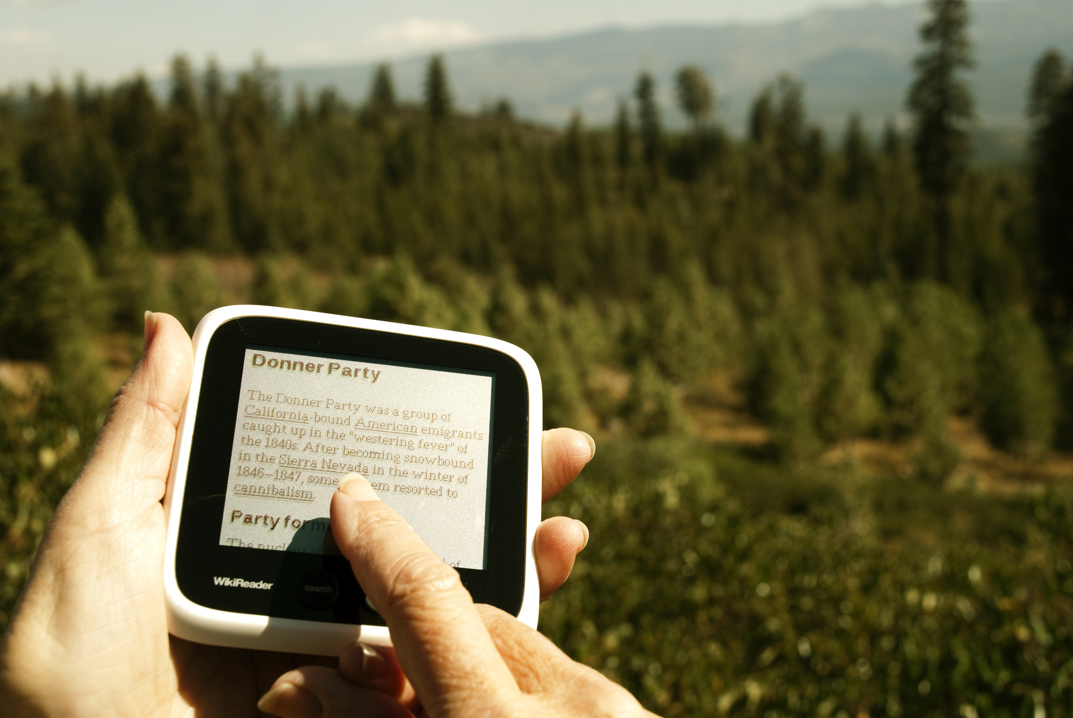 WikiReader in a forest.